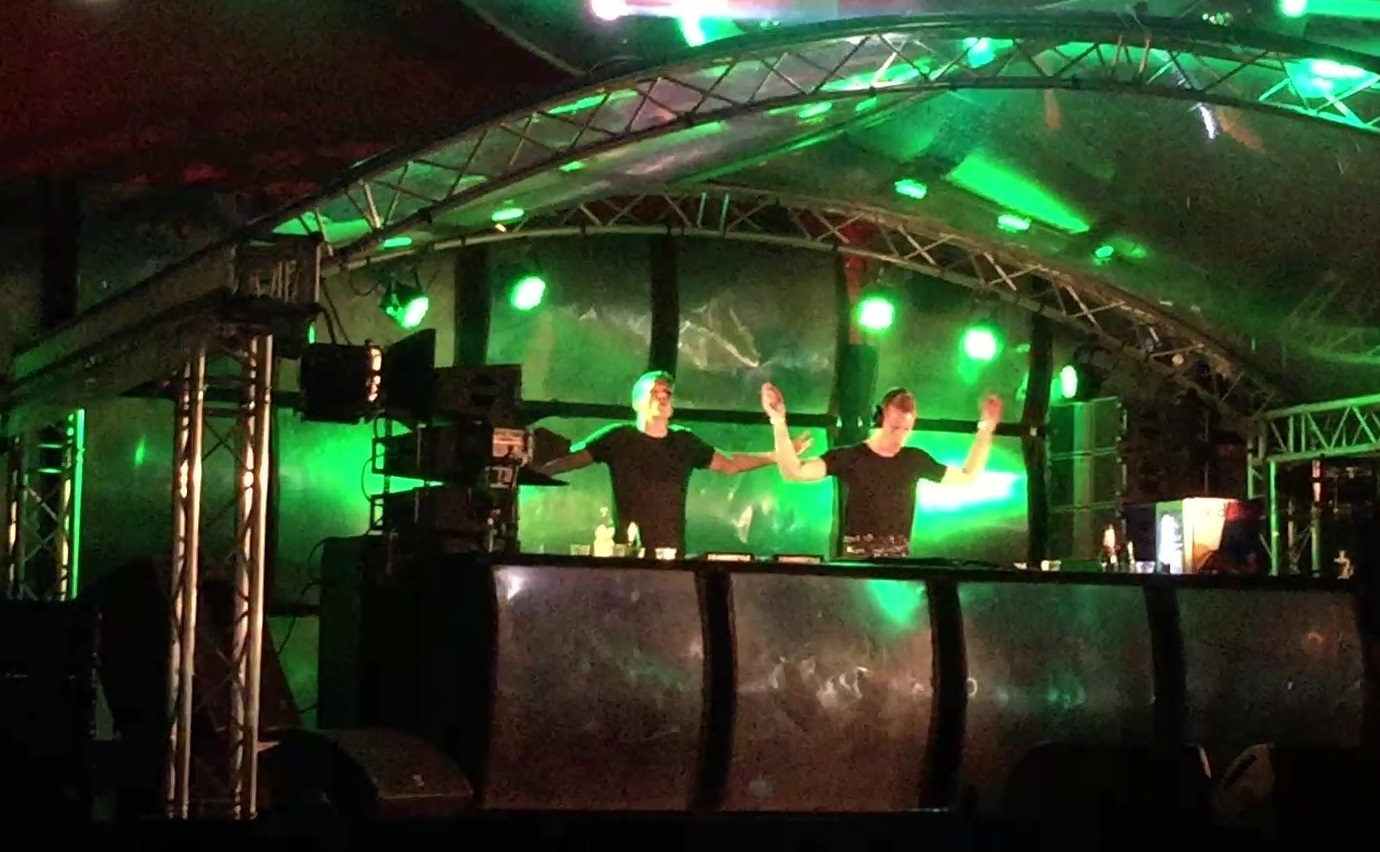 D-Block & S-Te-Fan live at Airbeat One Festival 2016 in Germany